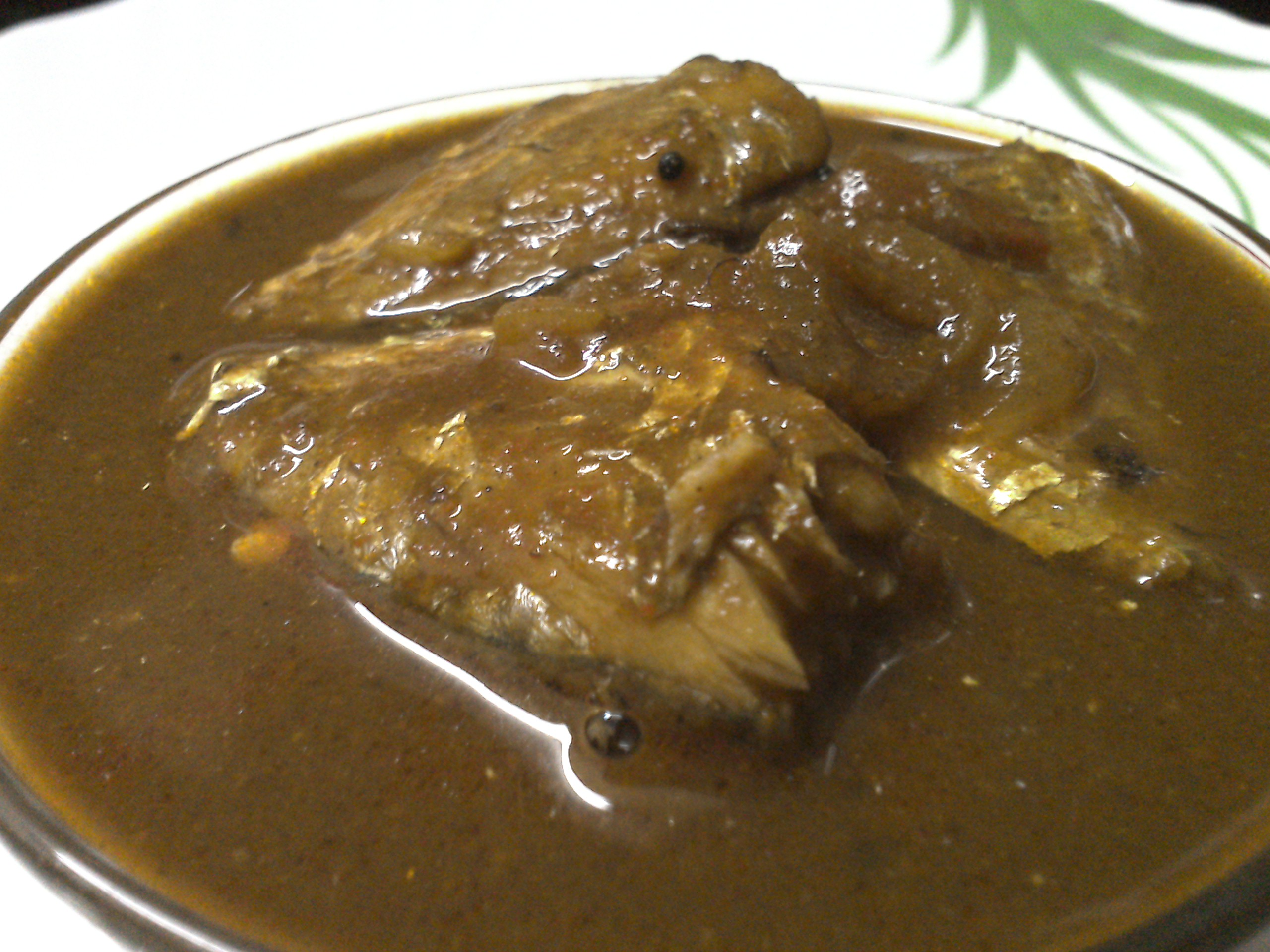 Tamil Nadu (South India) Fish Curry